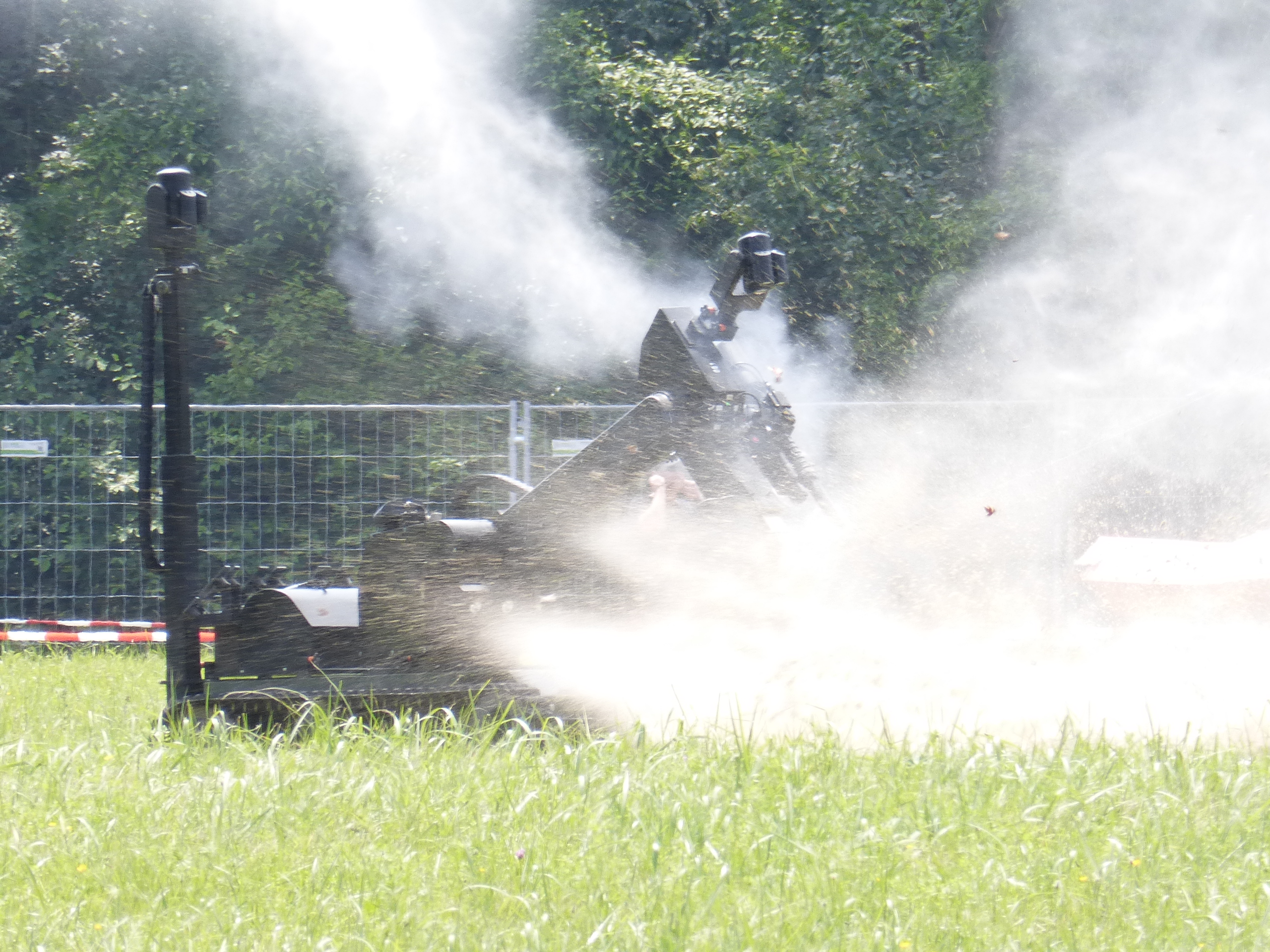 Bomb disposal robot "tEODor" destroying a fake bomb at the "Day of the Bundeswehr 2018" in Ingolstadt, Bavaria, Germany